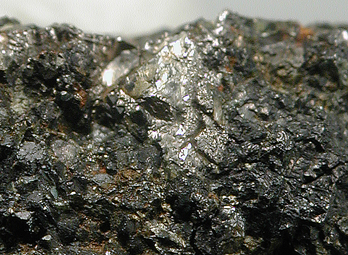 Linnaeite, Magnetite Locality: Gladhammar Mines, Västervik, Småland, Sweden Original description: Lustrous, steel-gray, crude octahedral crystal of linnaite in magnetite matrix. Field of view = 3 mm. Collected by I. Johansson, 1990, via Dave Shannon. K. Nash specimen and photo.